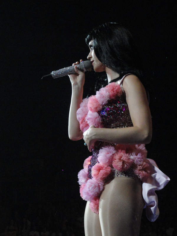 Katy Perry - Seattle, WA 7/20/2011